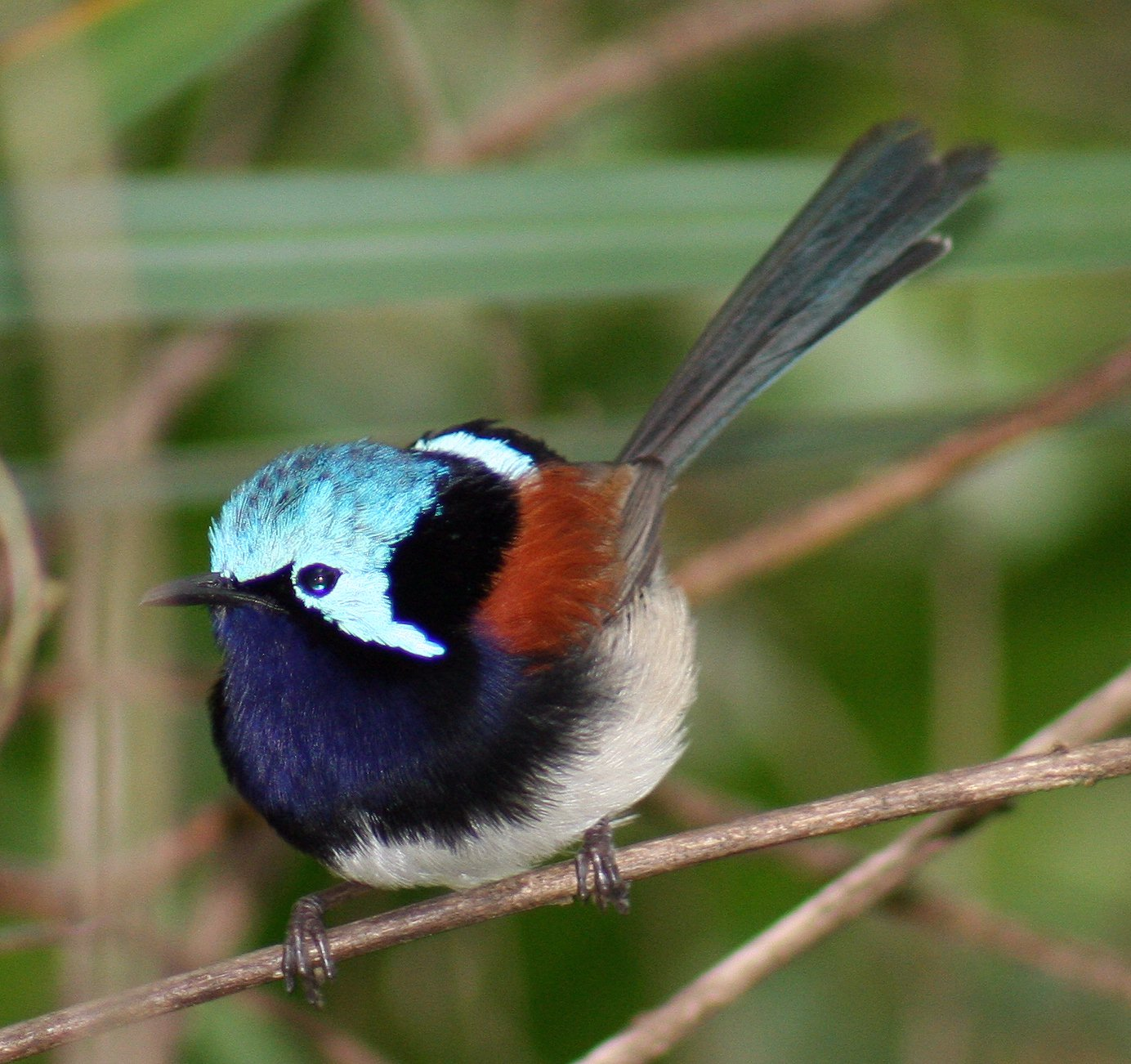 Red-winged Fairy-wren, male in breeding plumage - Margaret River riverside walk.